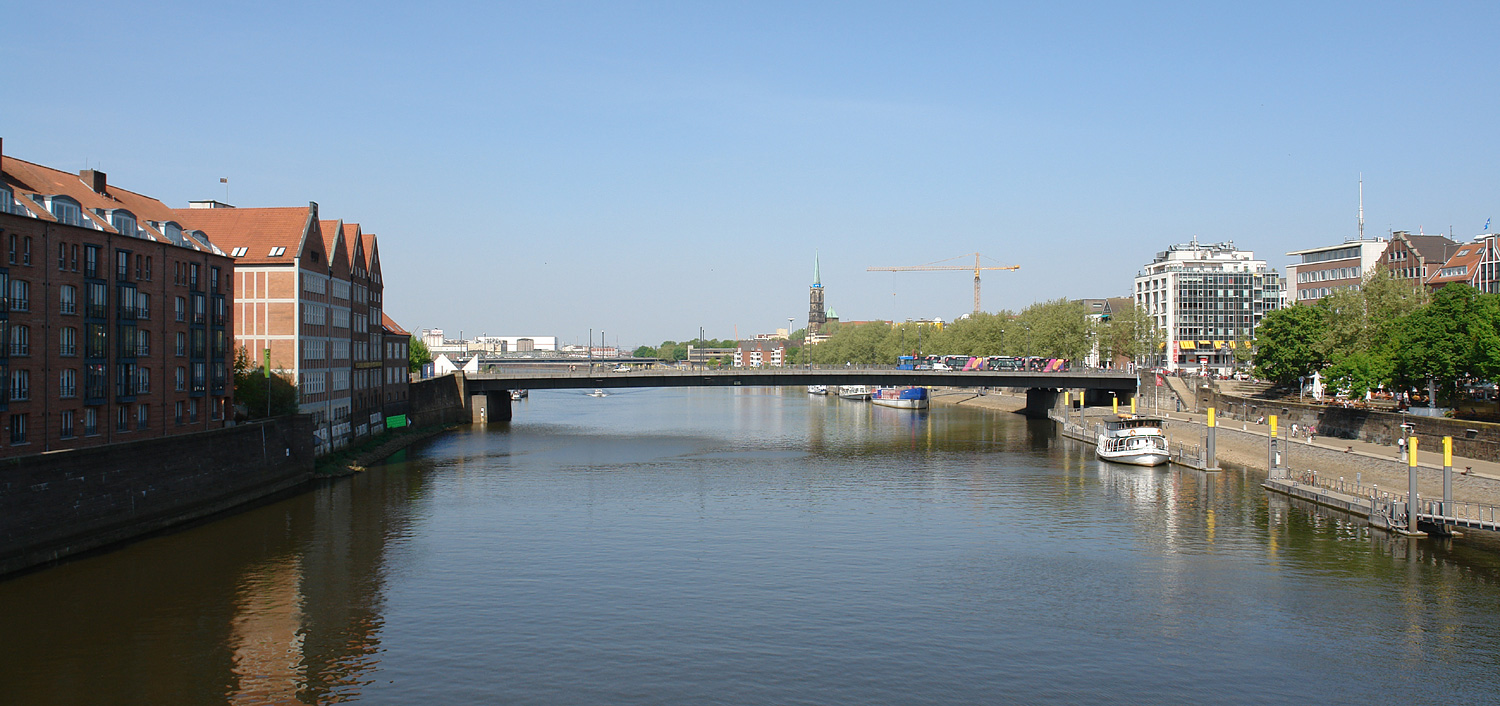 River Weser in Bremen. The bridge links the Teerhof area and its Weserburg Museum with the area on the opposite bank known as Schlachte